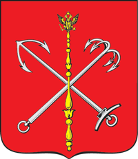 St. Petersburg, coat of arms (1780)